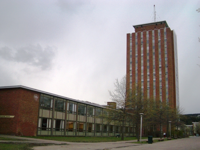 Library Tower of SUNY Binghamton.